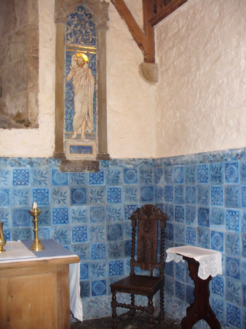 Interior of St. Patrick's Church. Blue tiles and the Pastor Bonus mosaic inside St. Patrick's Church. These items are believed to demonstrate Moslem influences. 530698